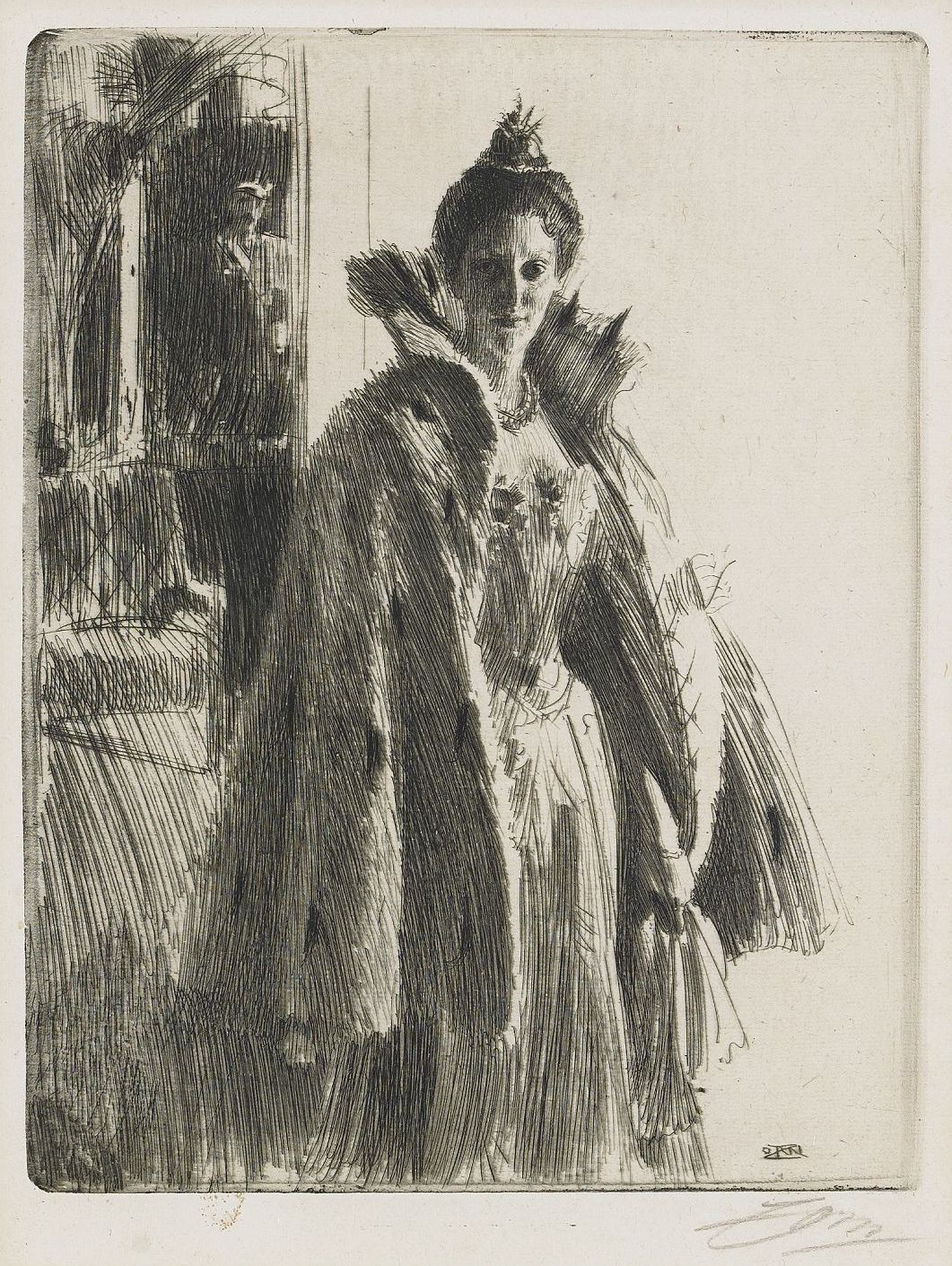 Ingeborg, Princess of Denmark and Sweden (1878-1958).